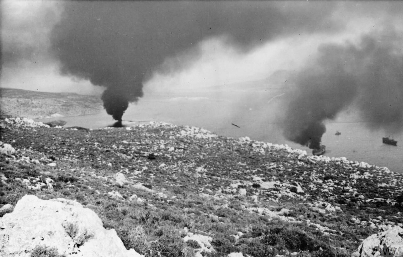 A pall of smoke hanging over the habour in Suda Bay where two ships, hit by German bombers, burn themselves out. - May 1941